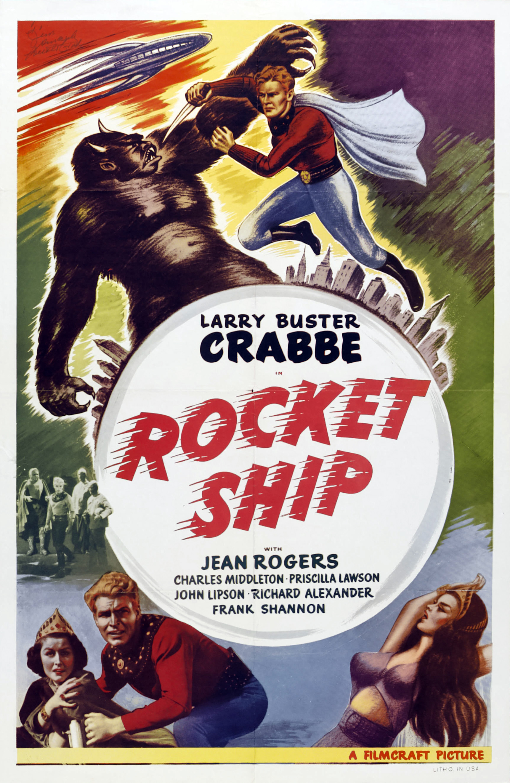 Film poster from the Flash Gordon serial